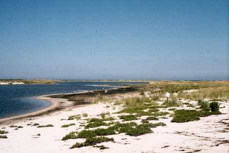 Photo of Muskeget Island